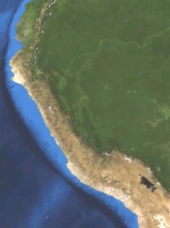 Satellite image of Perú